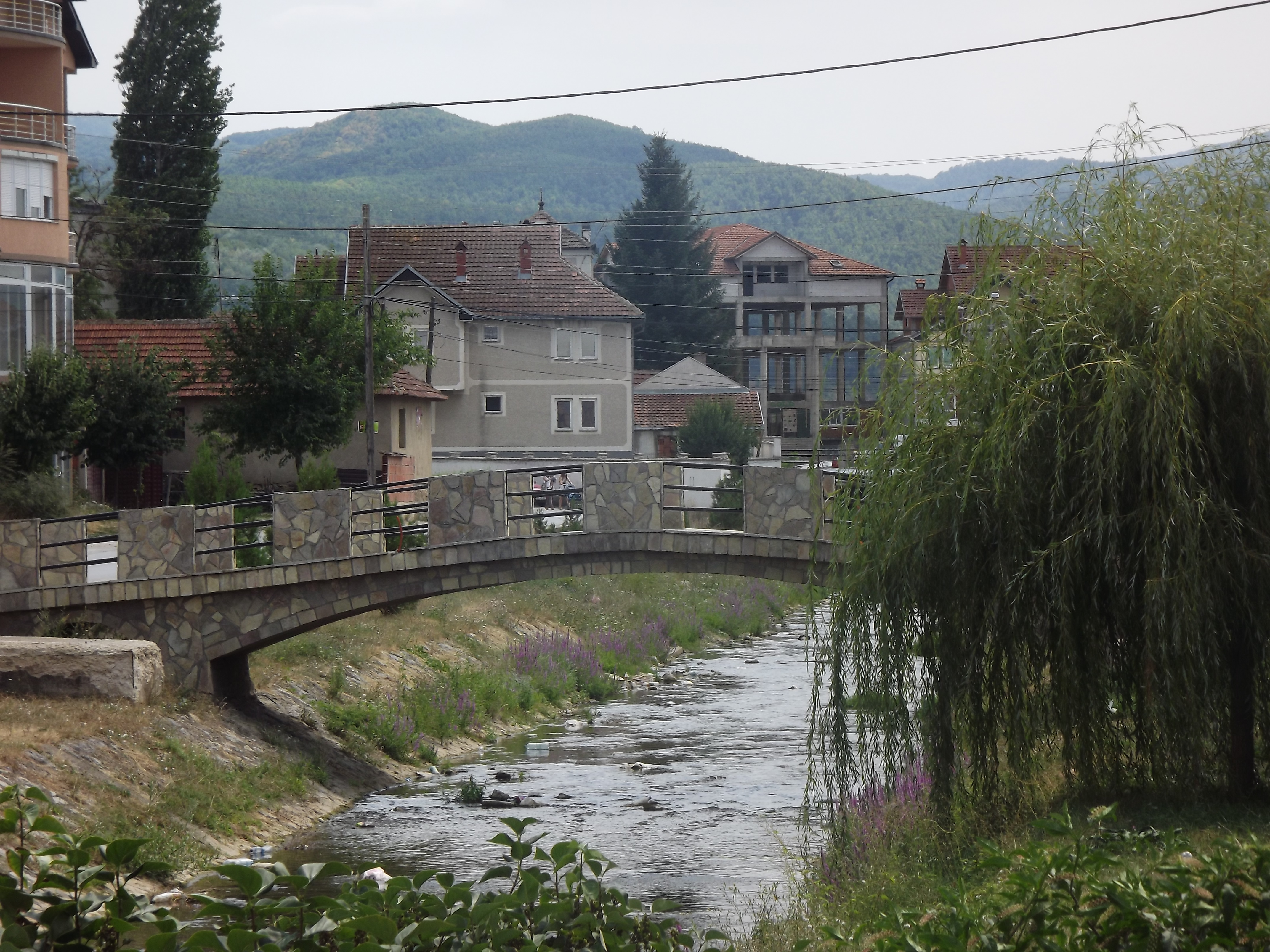 viti,kosove